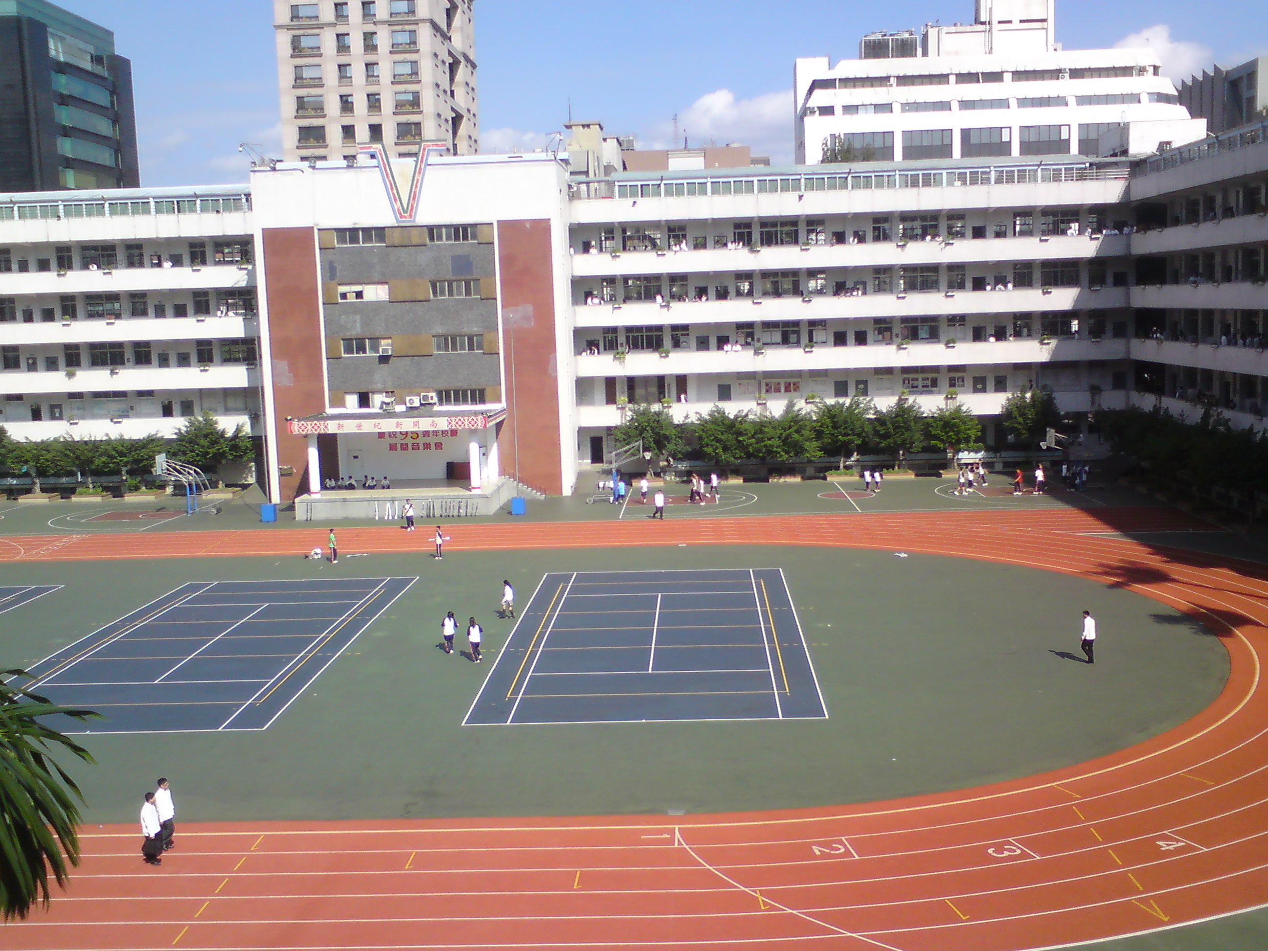 Kai-Nan Vocational high school